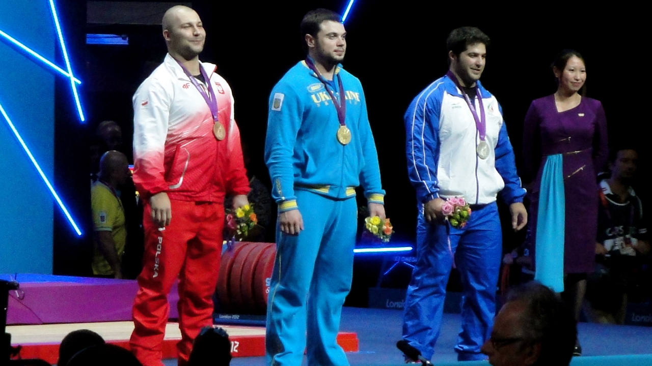 Oleksiy Torokhtiy (UKR) wins gold, Navab Nasirshelal (IRI) silver and Bartlomiej Wojciech Bonk (POL) bronze